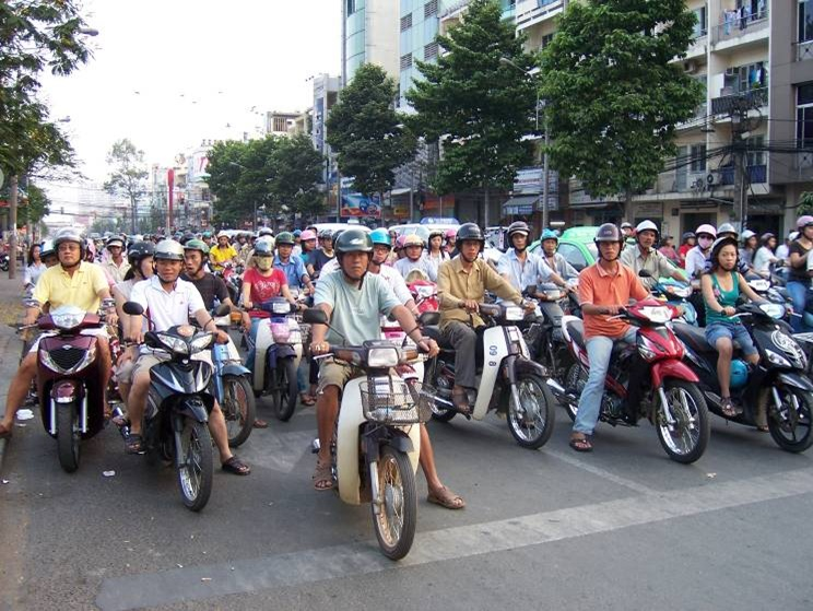 High population pressure in the cities